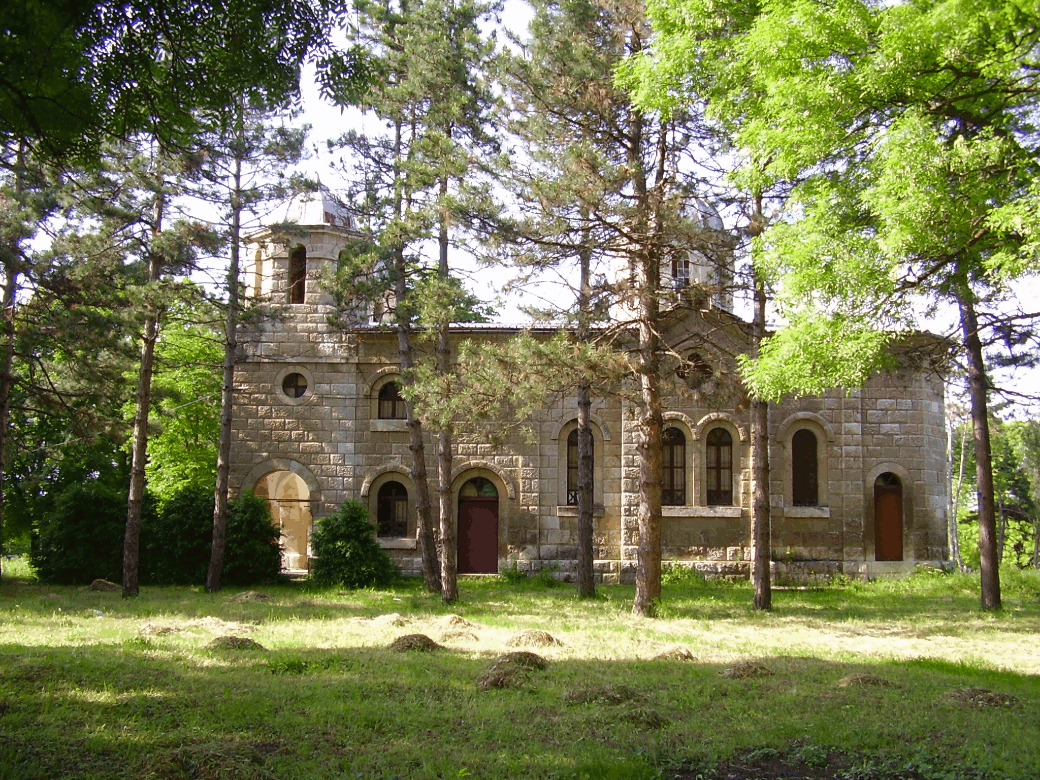 Church of Saint Nicholas (1905-1910). Musselievo, Pleven, Bulgaria